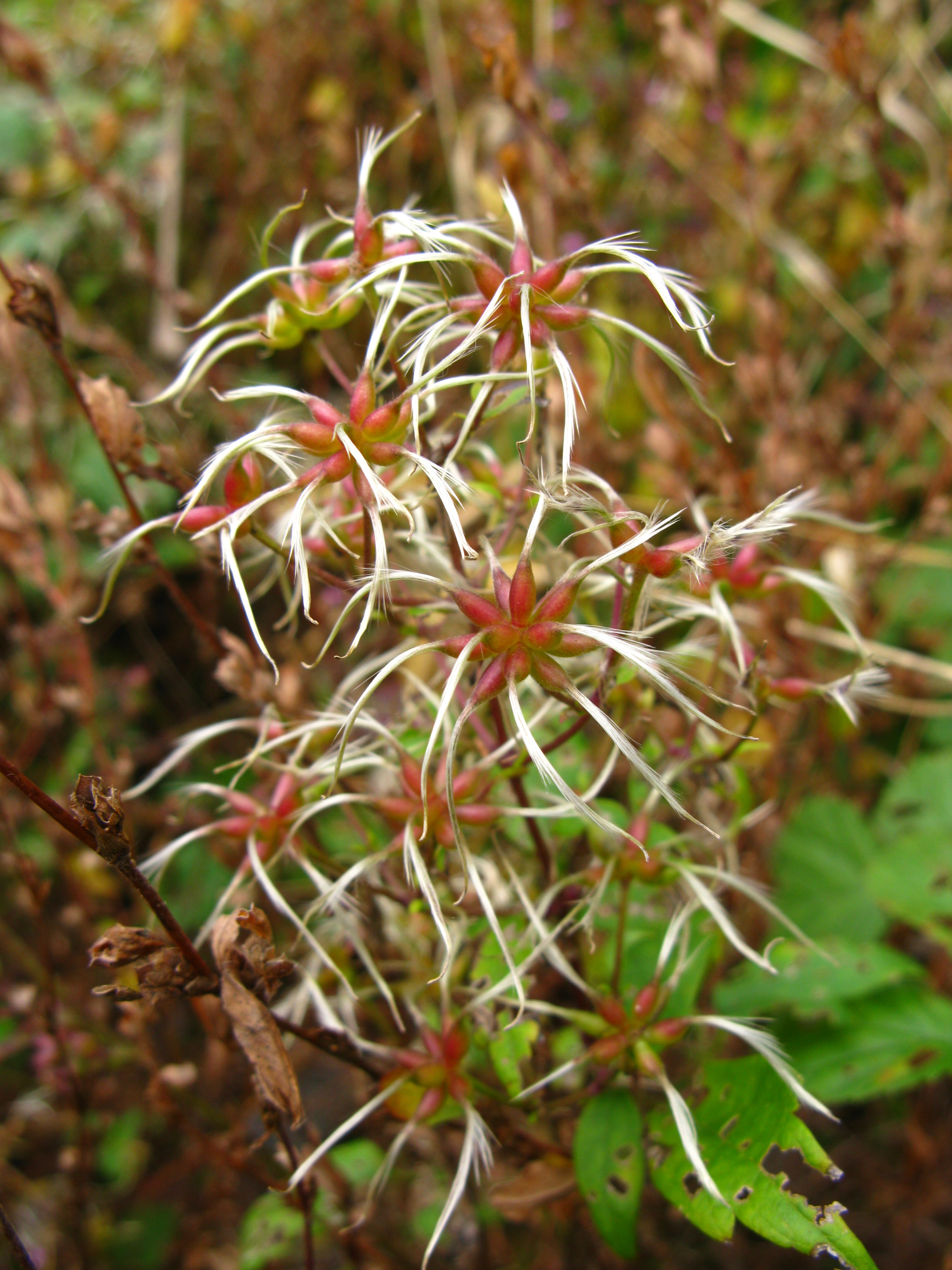 Clematis apiifolia, Aizu area, Fukushima pref., Japan